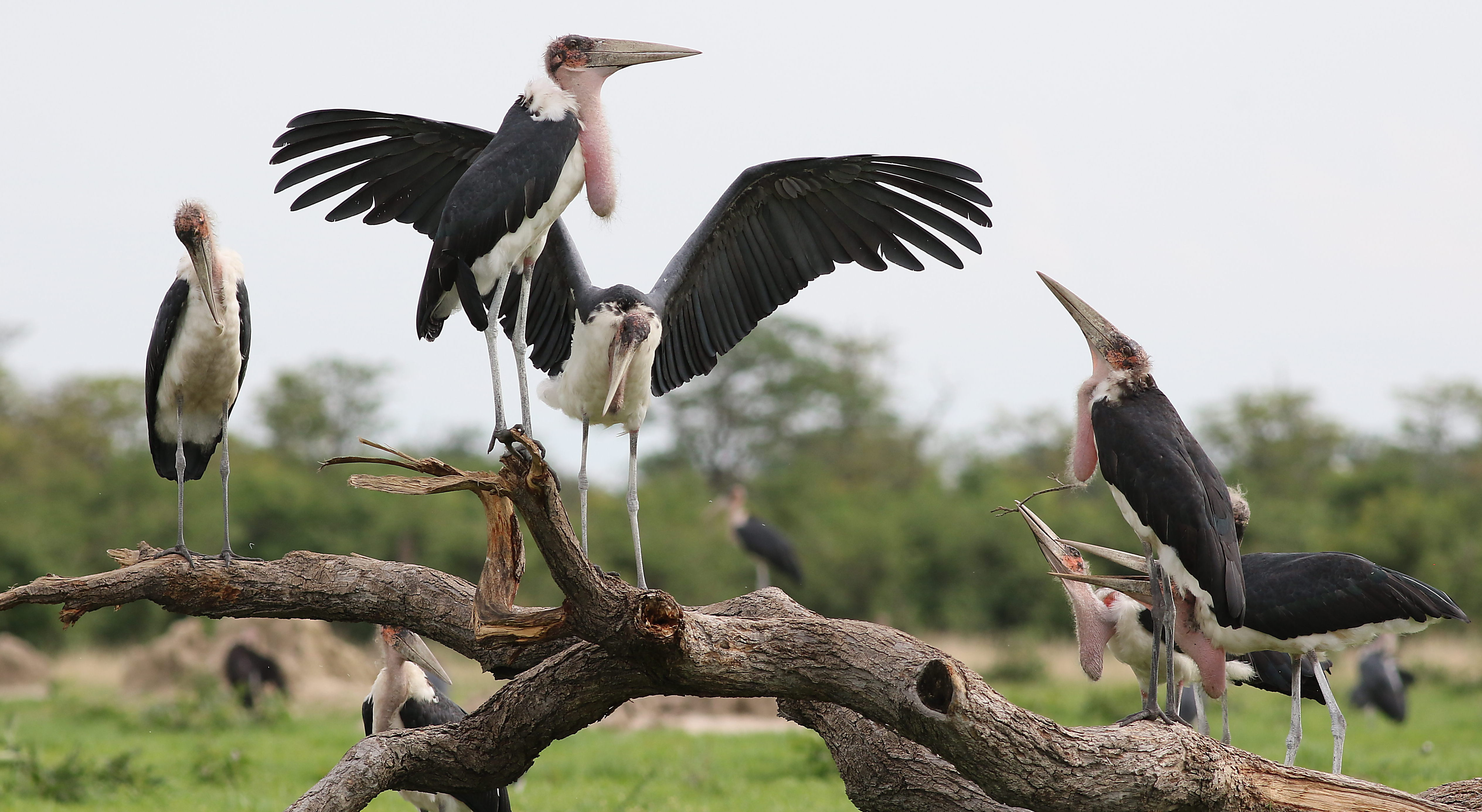 Marabou Stork, Leptoptilos crumeniferus, at the aptly named Marabou Pan, Savuti, Chobe National Park, Botswana